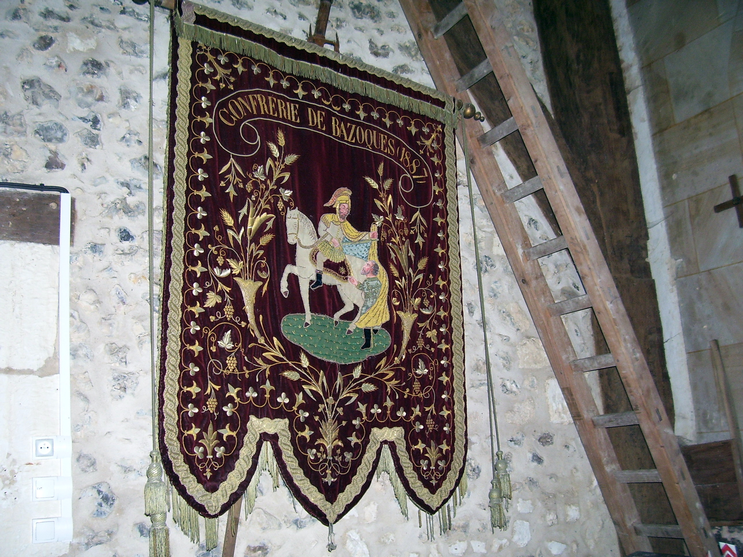 Banner (1887) of the "Brotherhood of Charity" of in the church Saint-Martin of Bazoques (Eure, Haute-Normandie) in France.